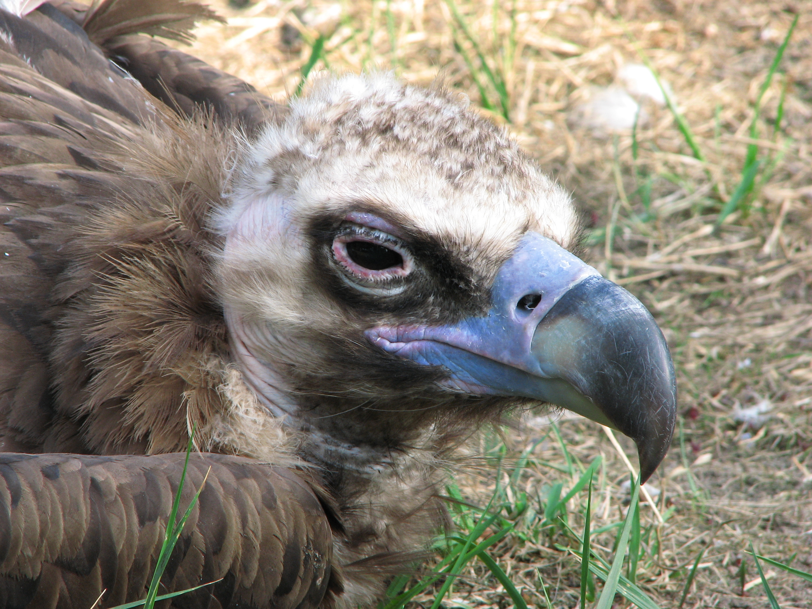 Eurasian black vulture (Aegypius monachus), Tierpark Berlin, Germany.